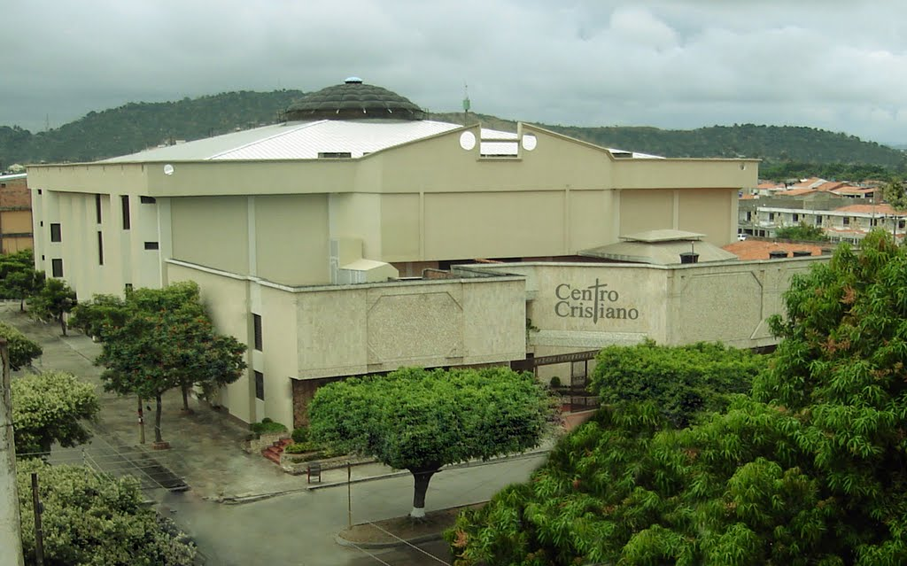 Centro Cristiano Internacional de las Asambleas de Dios, 9E Avenue # 5N-10 Los Pinos, Cúcuta, Colombia.